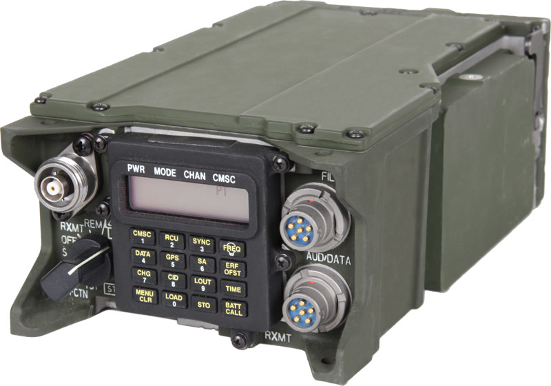 The front of the Exelis SINCGARS RT-1702F